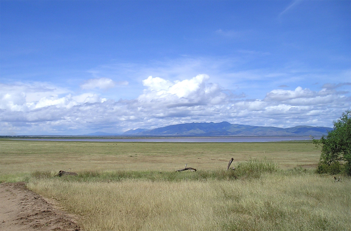 Lake Manyara view from the National Park, Tanzania